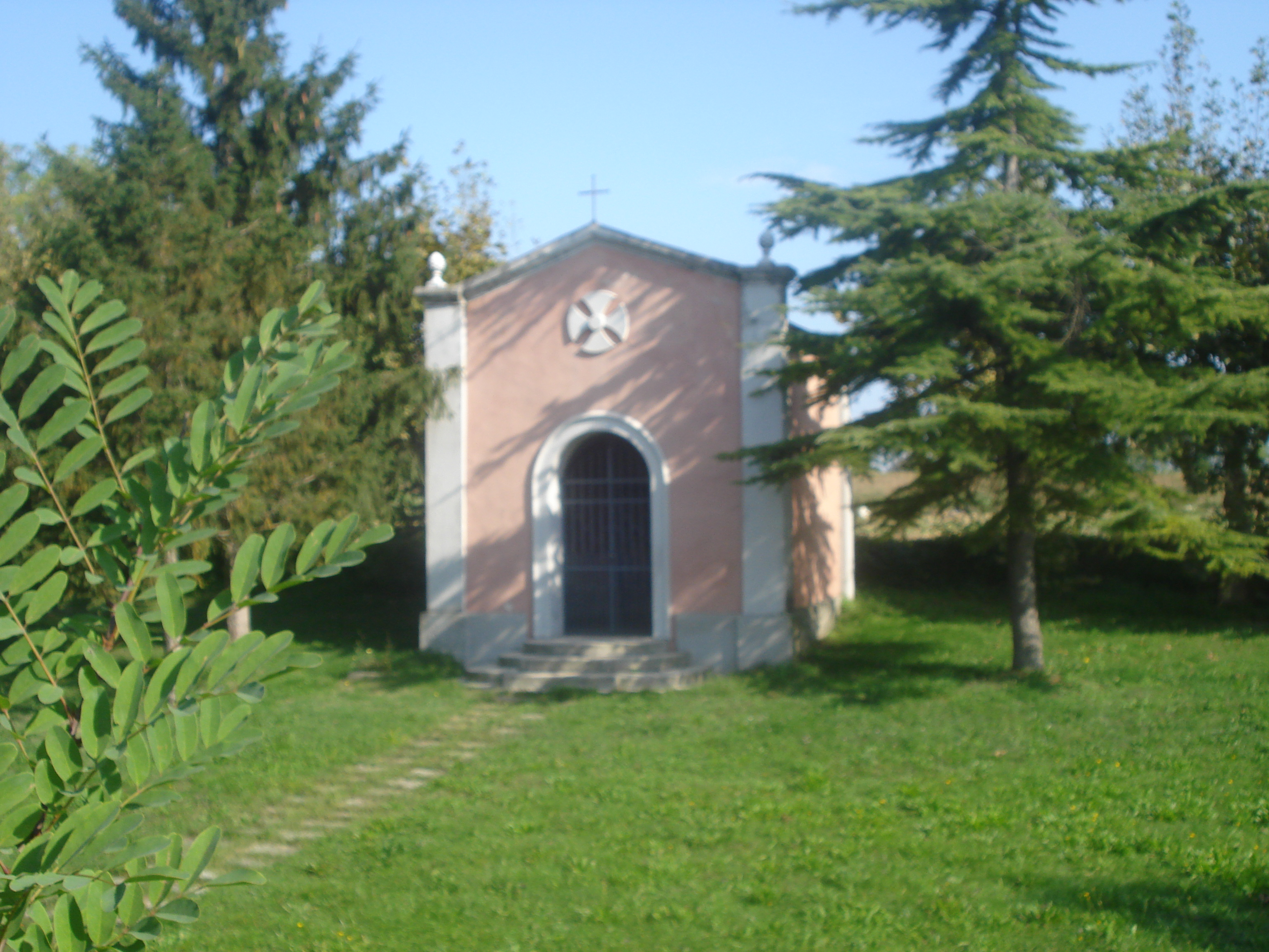 A small chapel of Gottolengo